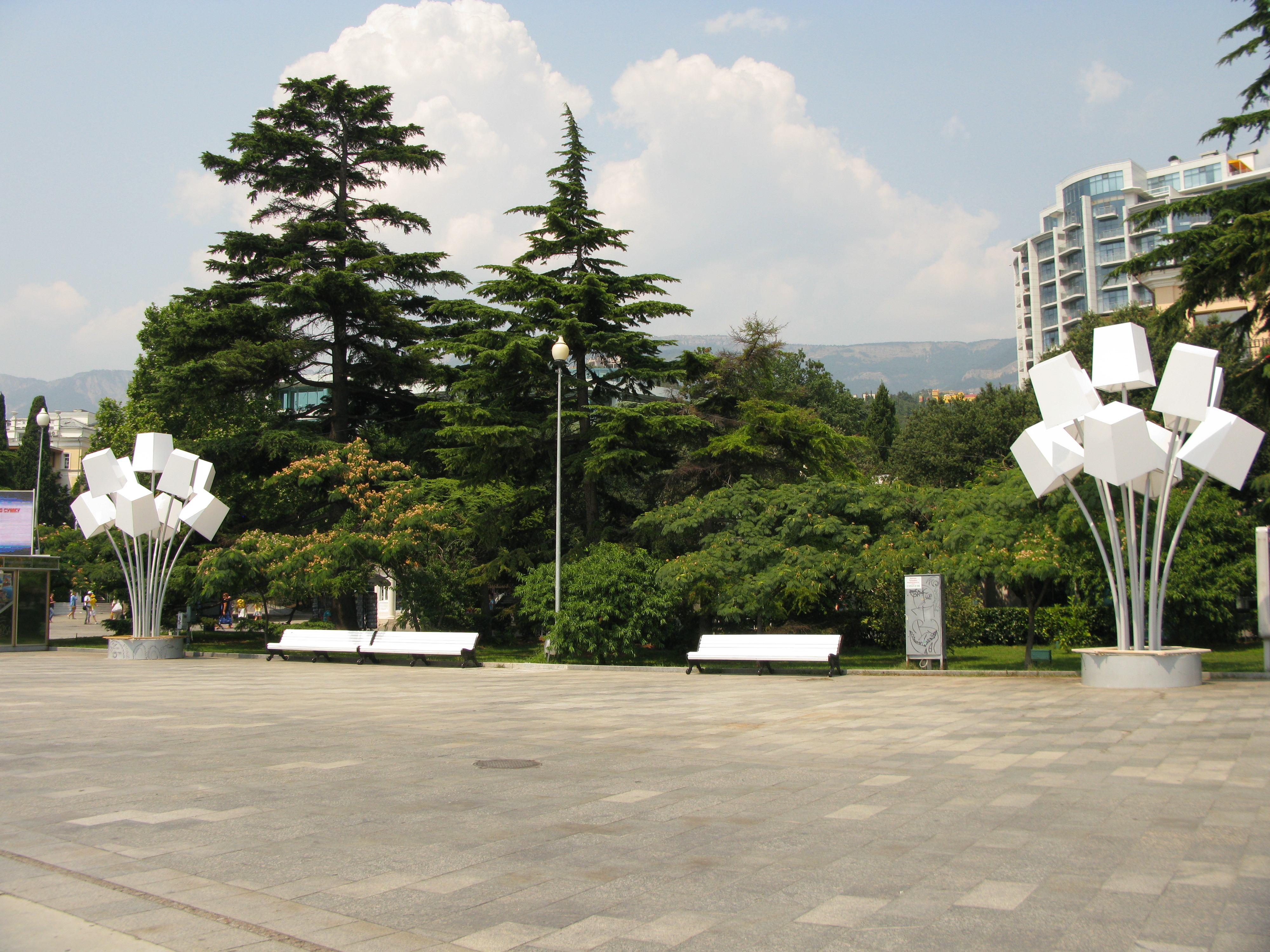 Yalta embankment